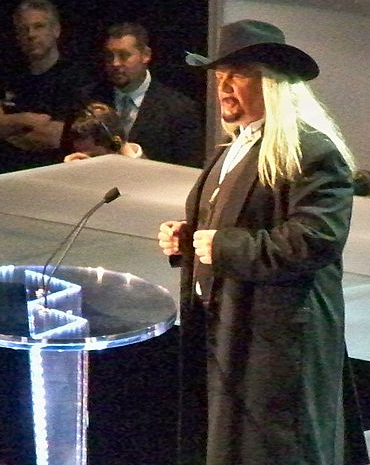 Retired wrestler/current WWE producer Michael "P.S." Hayes